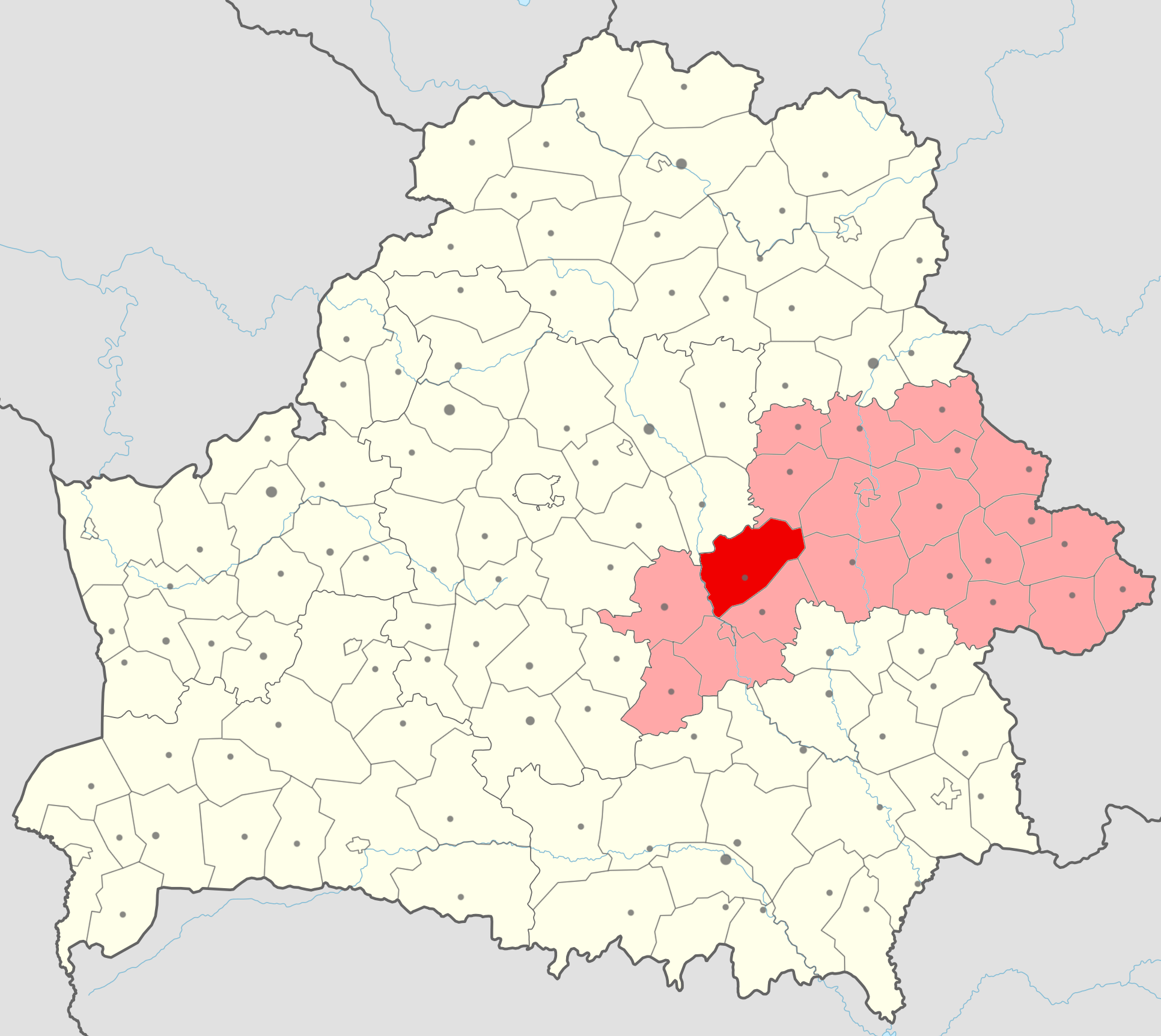 Location of Kličaŭski rajon (red) in Mahilioŭskaja voblasć (light red) in Belarus.